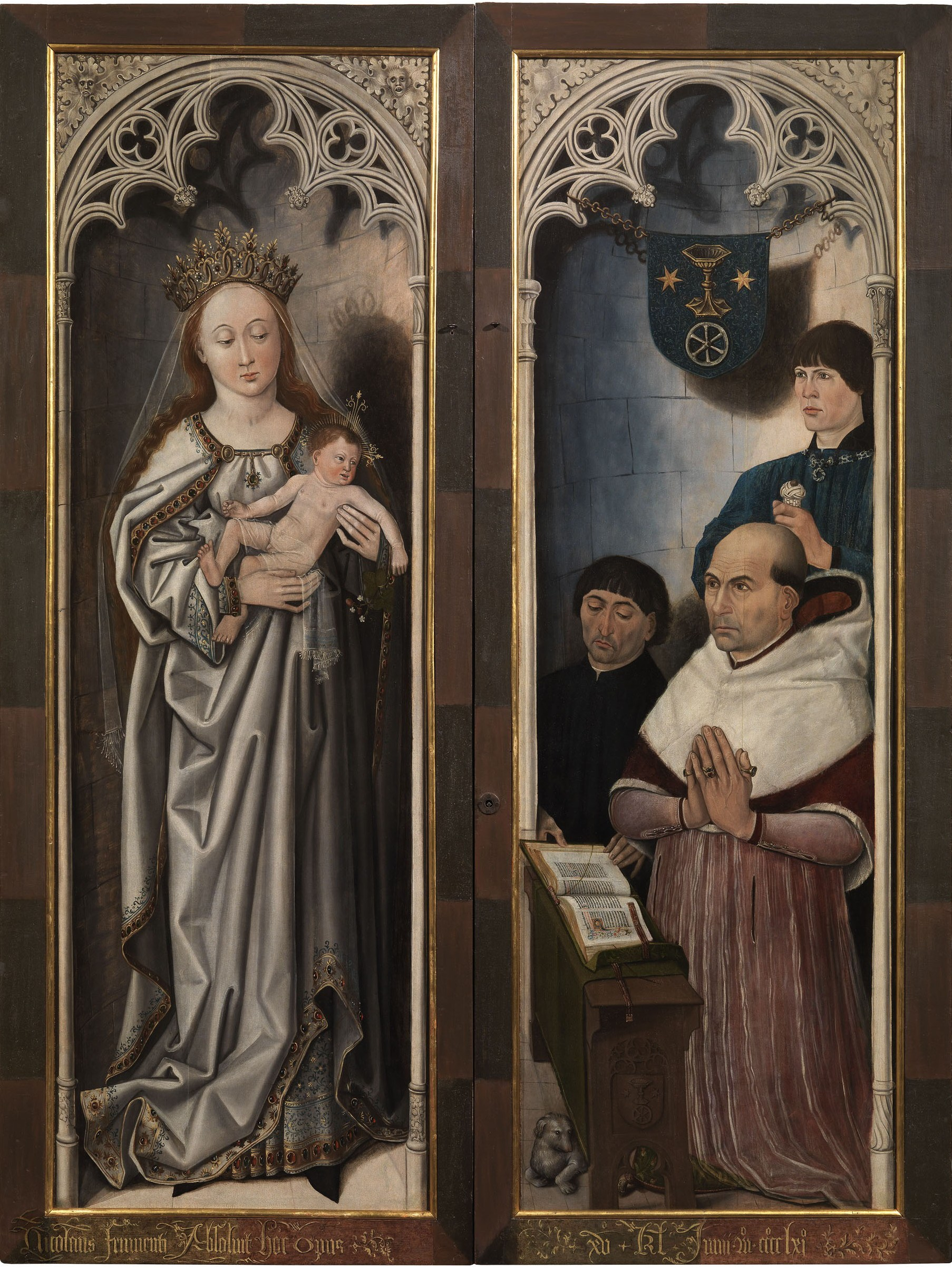 Nicolas Froment, Trittico Resurrezione di Lazzaro, particolare delle ante laterali, 1461, Firenze, Galleria Uffizi